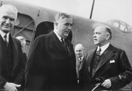 The Australian Prime Minister Robert Gordon Menzies (centre) accompanied by Australia's High Commissioner to Canada, Major General Sir Thomas William Glasgow (left) is greeted by Canada's Prime Minister William Lyon Mackenzie King (right) on his arrival in Ottawa, Canada.